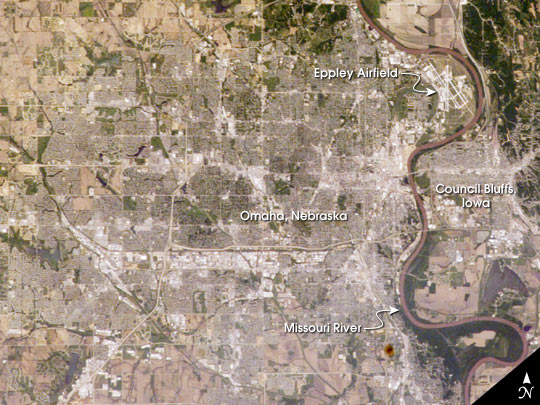 Omaha, Nebraska and Council Bluffs, Iowa, USA - June 2003 image description here